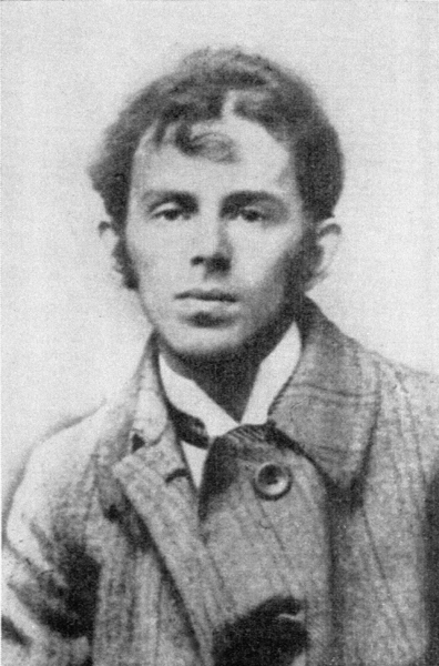 Osip Mandelstam, Russian writer, 1914